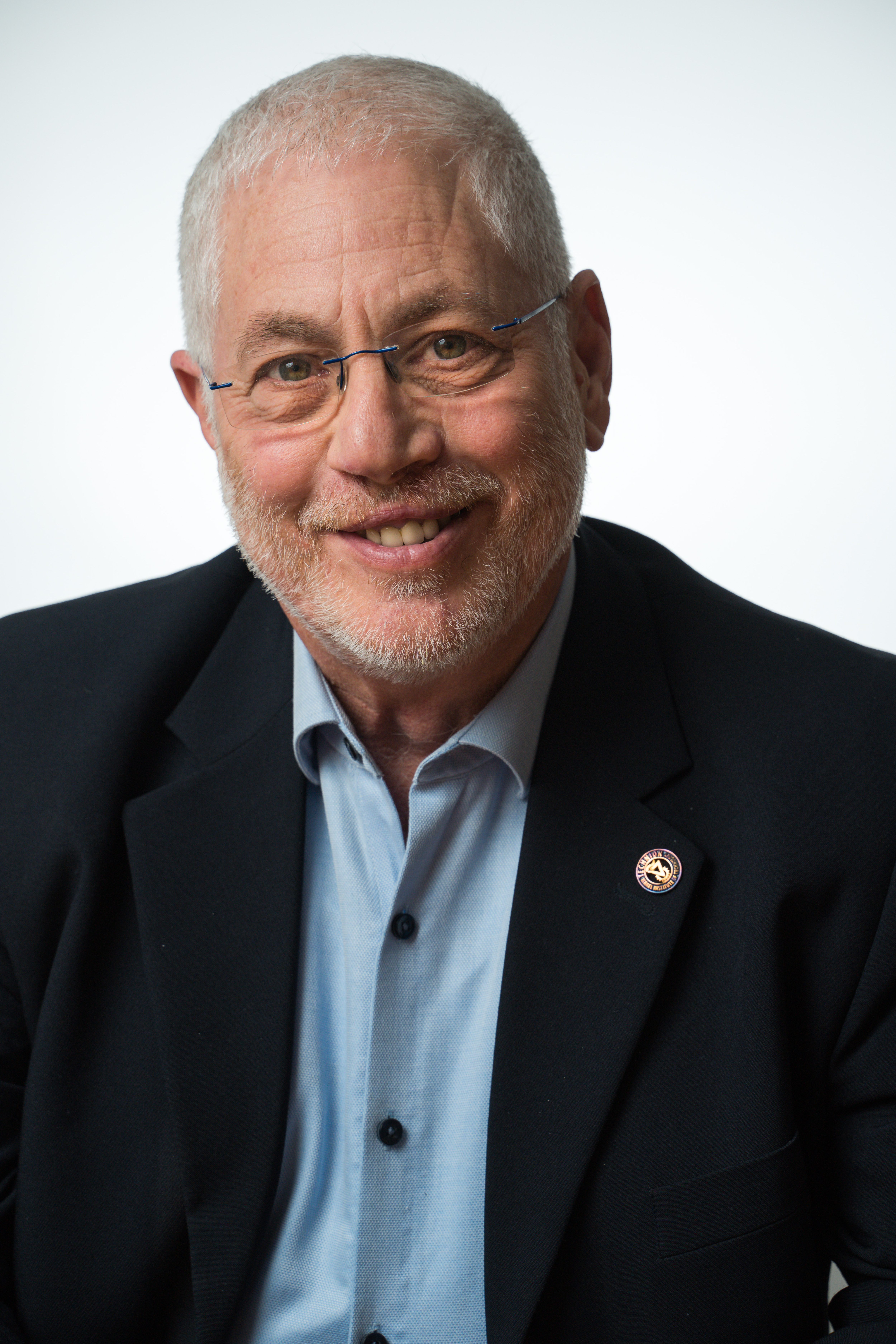 Depicted person: Uri Sivan – Israeli physicist